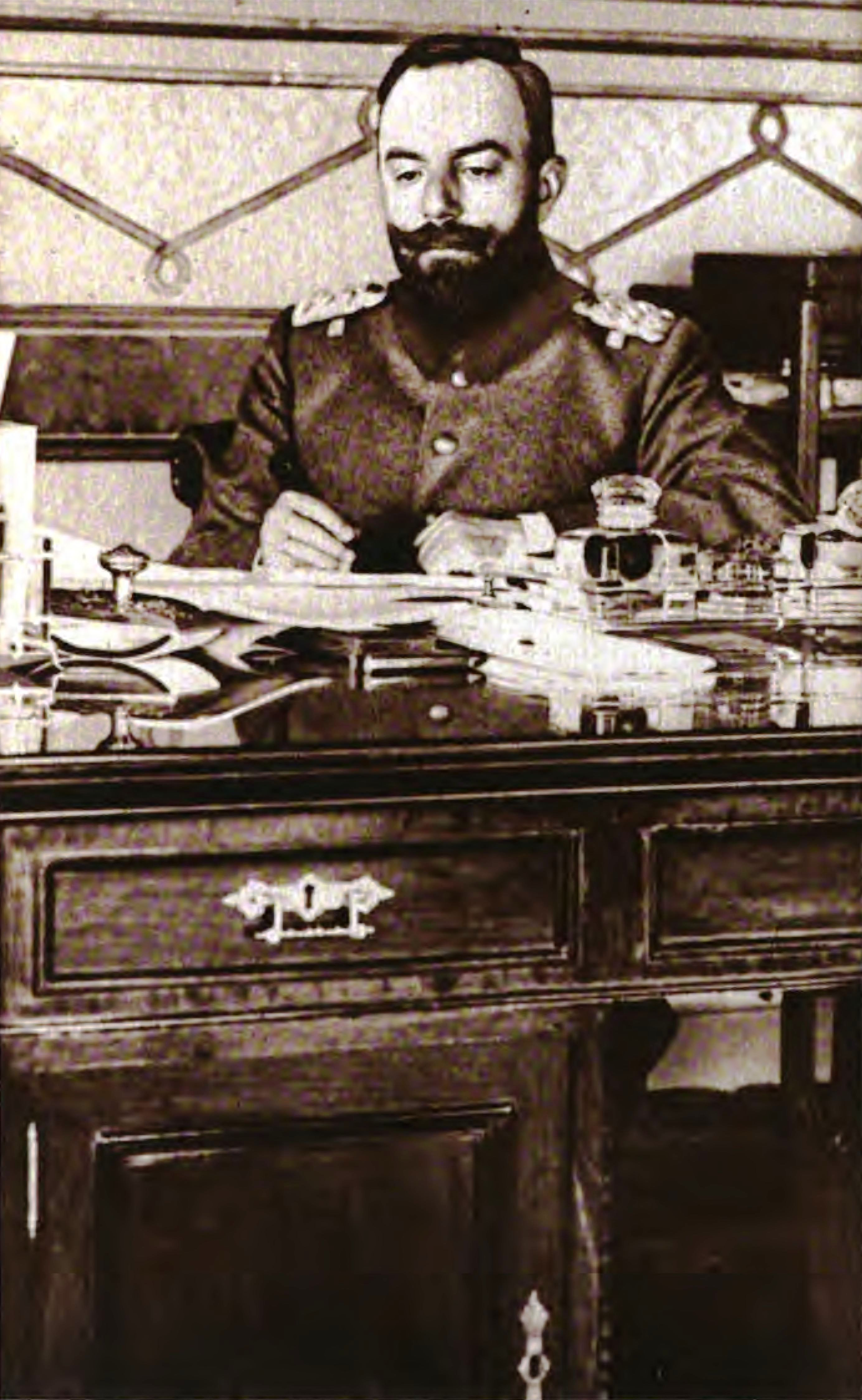 Djemal Pasha - The Turkish Minister of Marine, Who Shares with Enver Pasha the Control of Turkish Affairs. From The New York Times Current History of the European War.